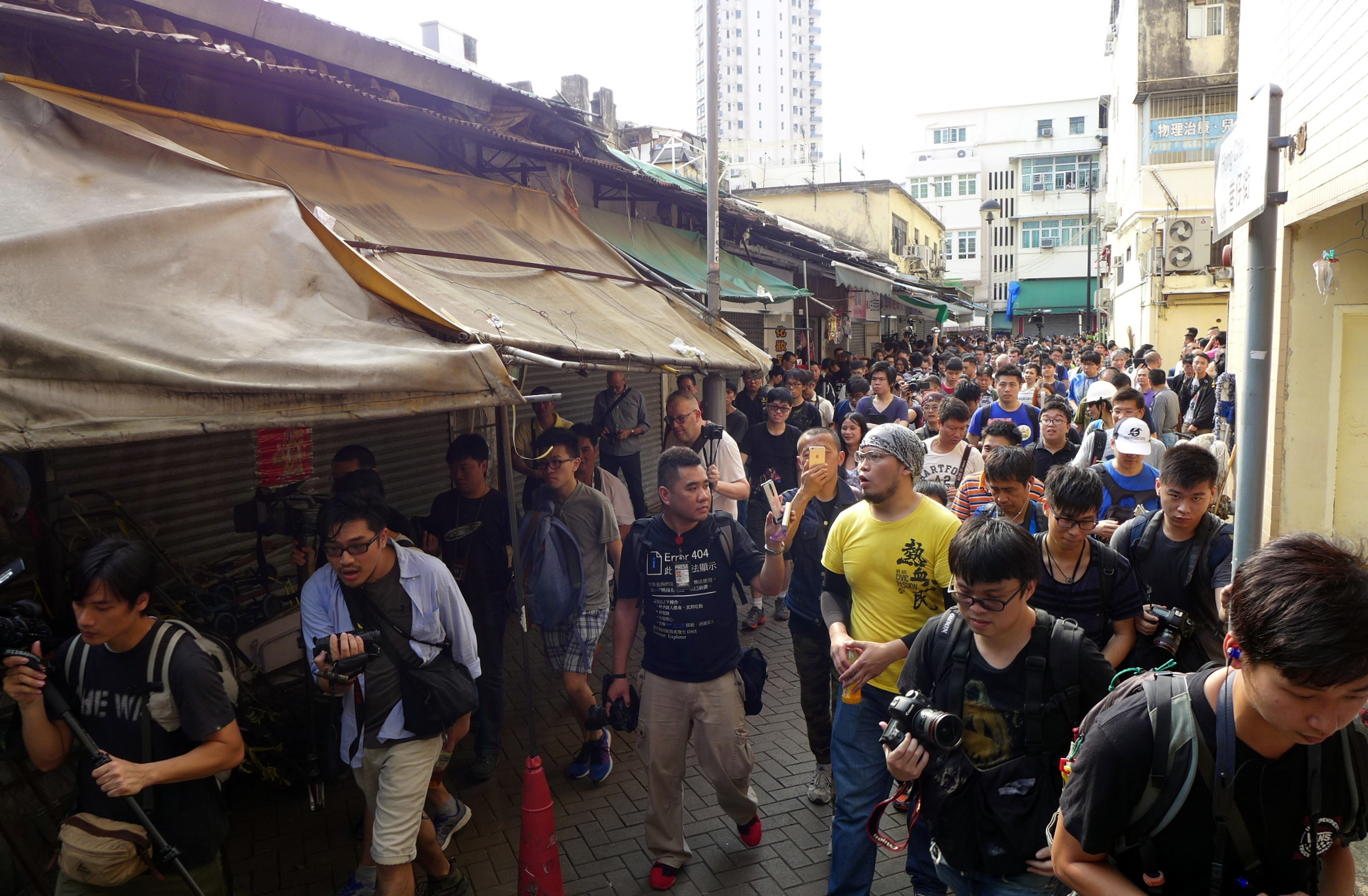 Hong Chai Street protest